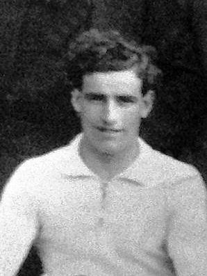 Kearney depicted on a postcard and cropped down.